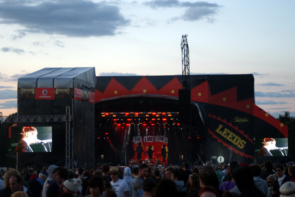 The Libertines at Leeds Festival on Friday the 27th of August 2010.